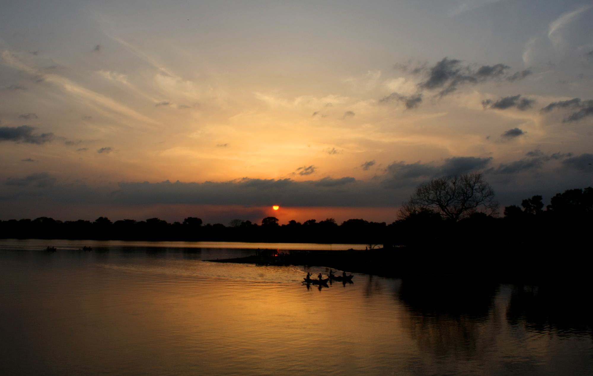 Sunset seen from Unnichchai tank